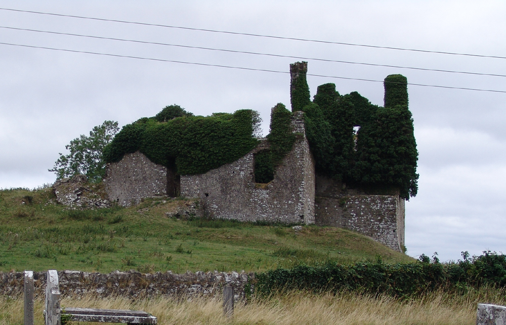 Image of Carbury Castle Ireland